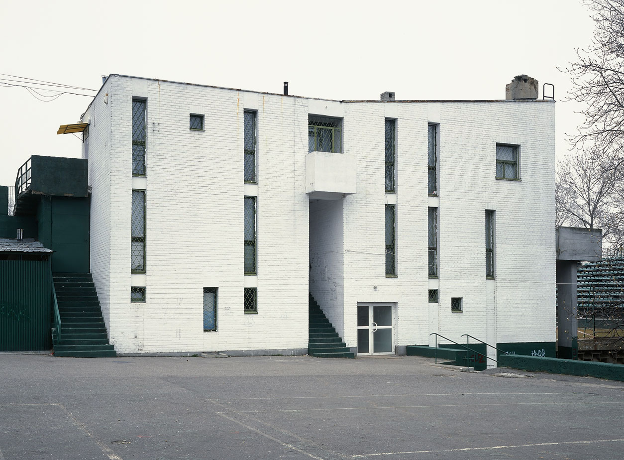 Warszawianka sport complex in Warsaw, Poland. Tennis court building, state as of 2004. The complex was designed by Jerzy Sołtan with associates in 1950s and built in years 1956–1972.